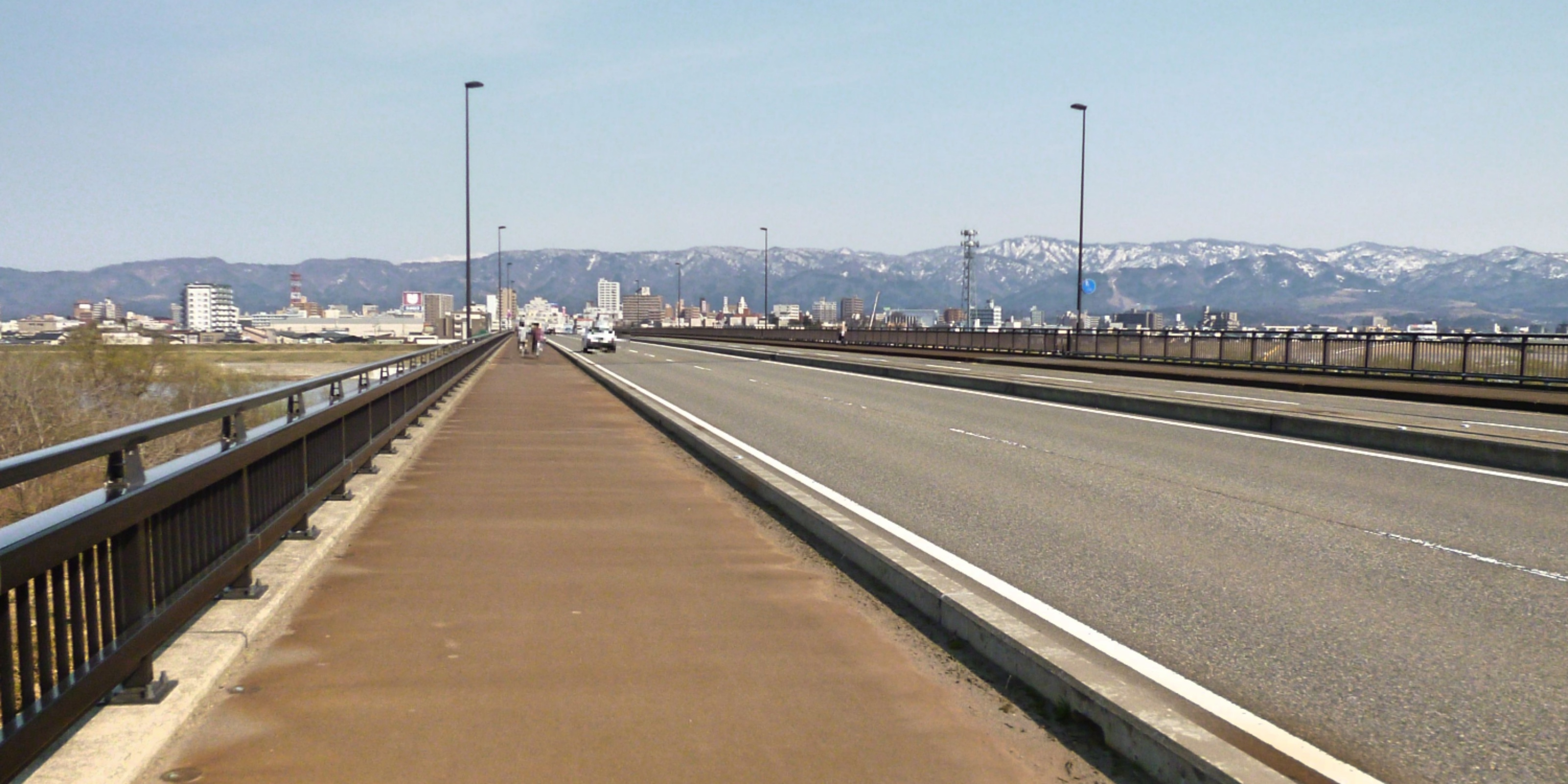 Ōte Ōhashi Bridge in Nagaoka, Niigata, Japan